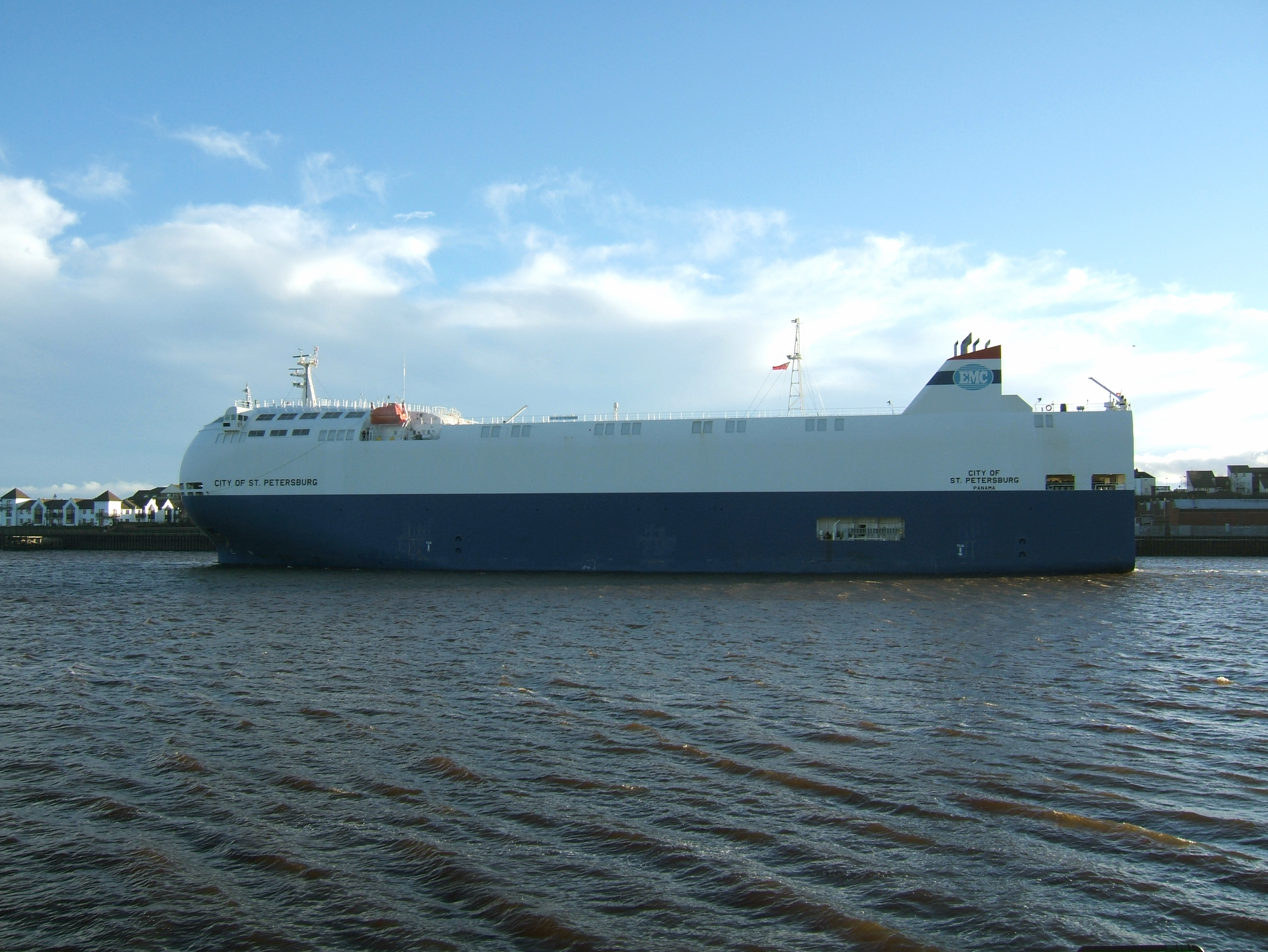 Nissan ship MV City of St. Petersburg leaving the Tyne, with a cargo of cars from the Sunderland Nissan car plant.